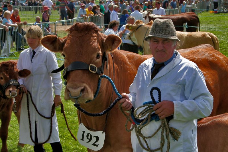 Cattle at a Devon agricultural show.